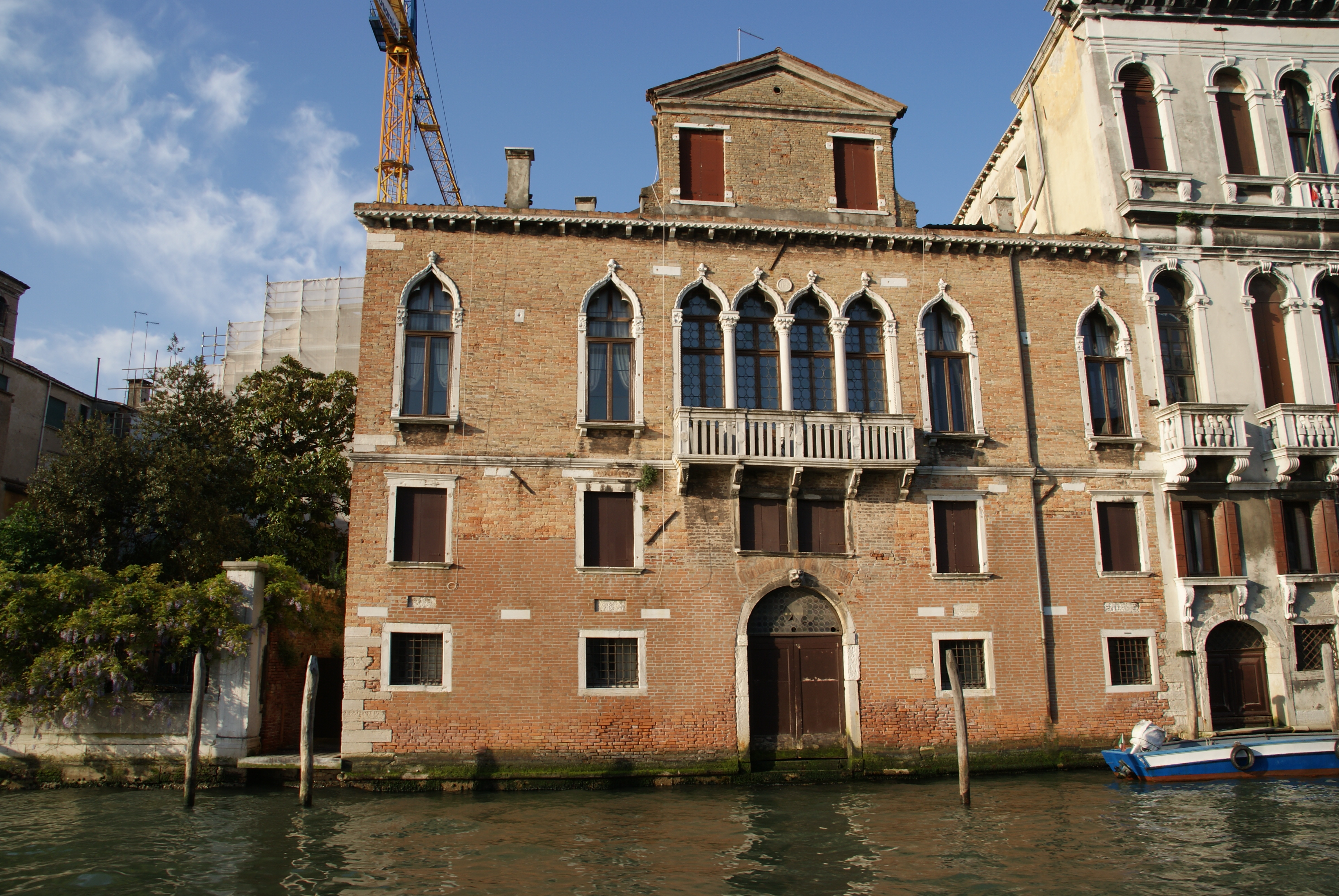 Palazzo Duodo Balbi-Valier, Santa Croce, Venice, view from vaporetto